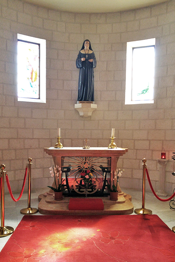 Remains of Marie Alphonsine Danil Ghattas, founder of Rosary Sisters order in the Middle East, in the Rosary Sisters convent in Jerualem